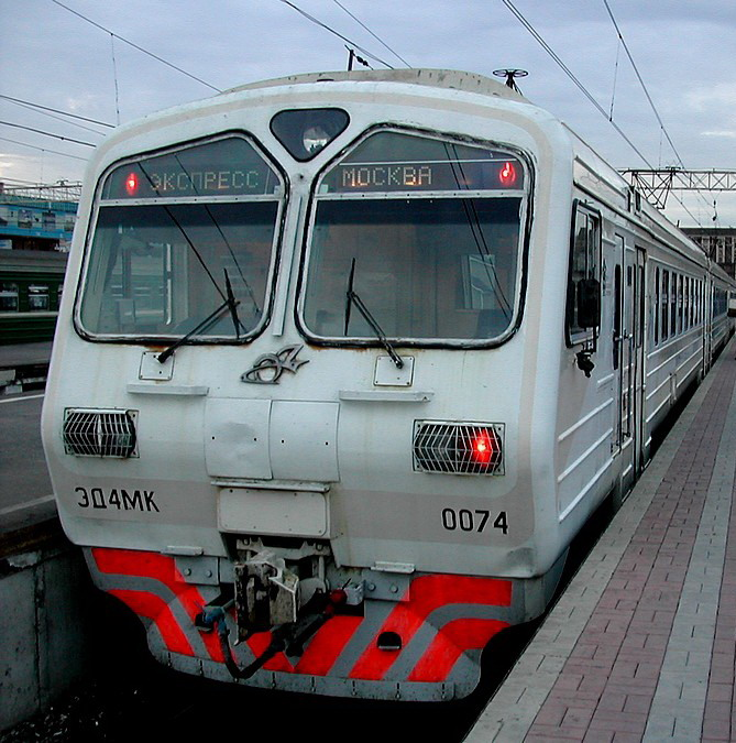 Domodedovo Express before departure from Paveletsky Rail Terminal in Moscow. August 31, 2005.